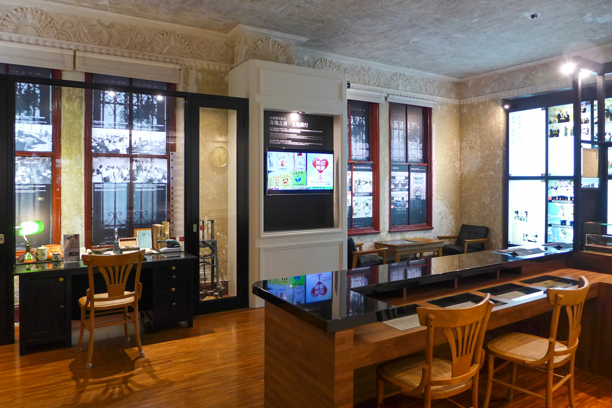 Story of the Land Bank of Taiwan